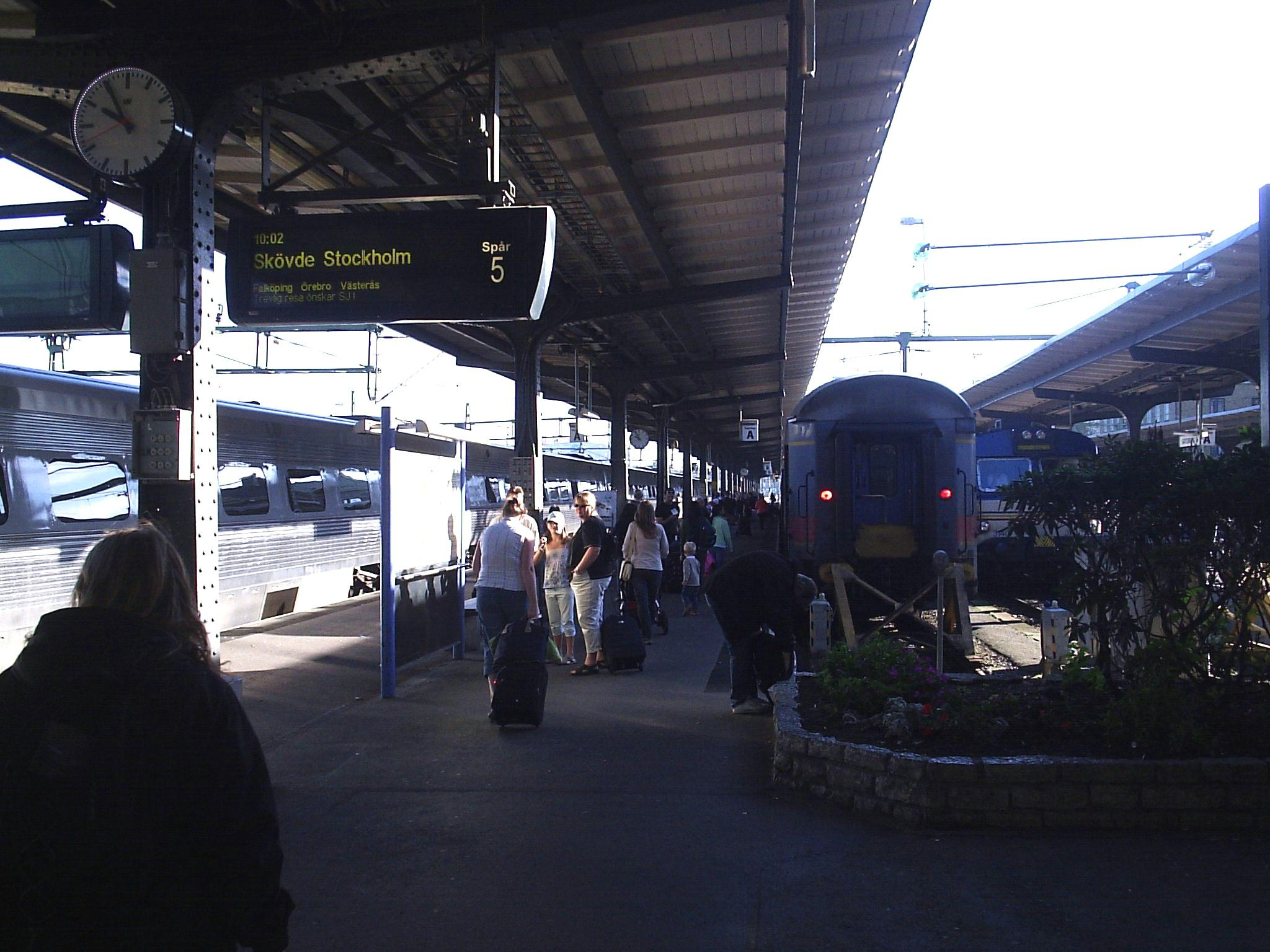 Photo by Harri Blomberg.